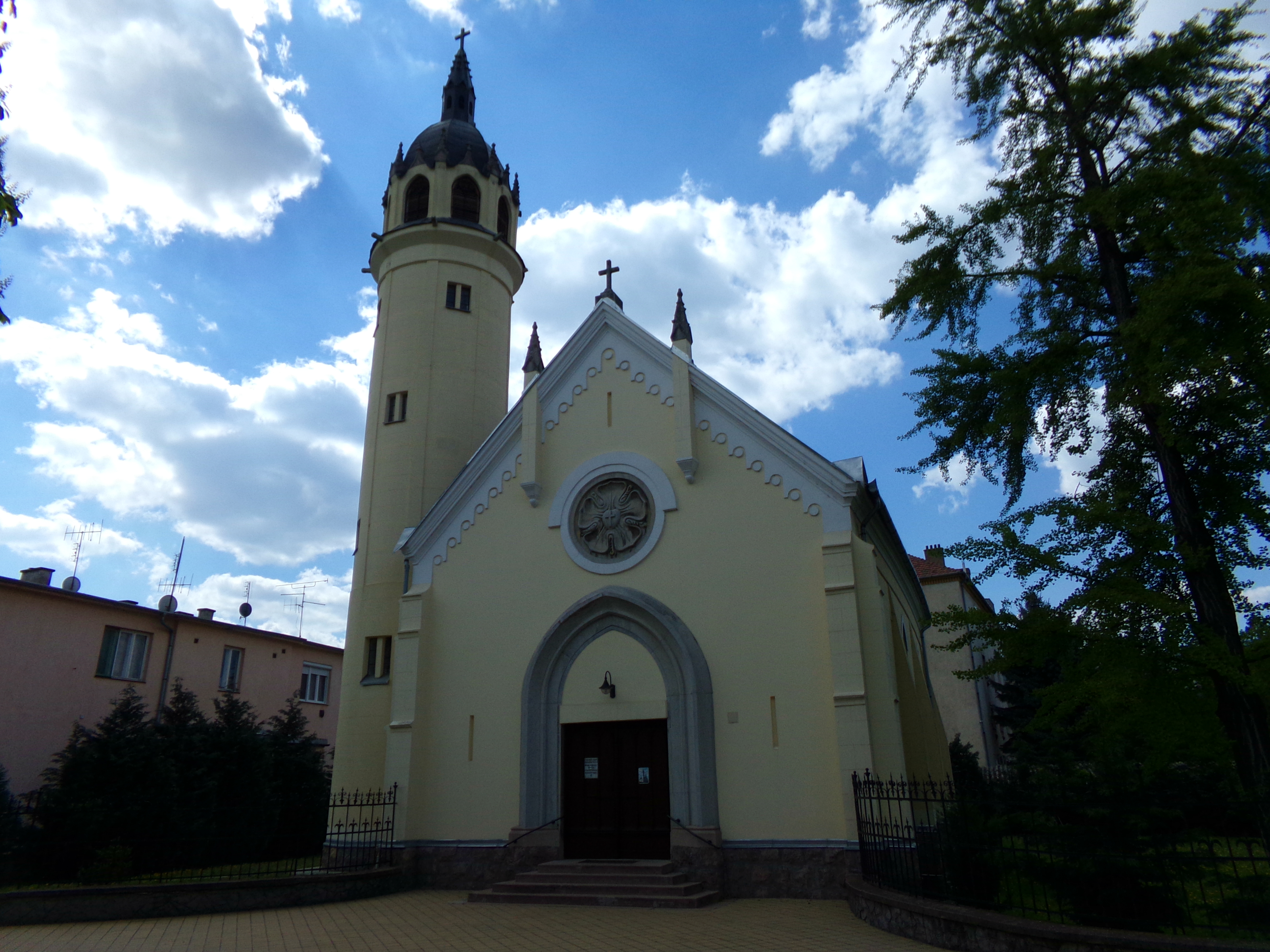 The Evangelical Church in Szolnok, Hungary.